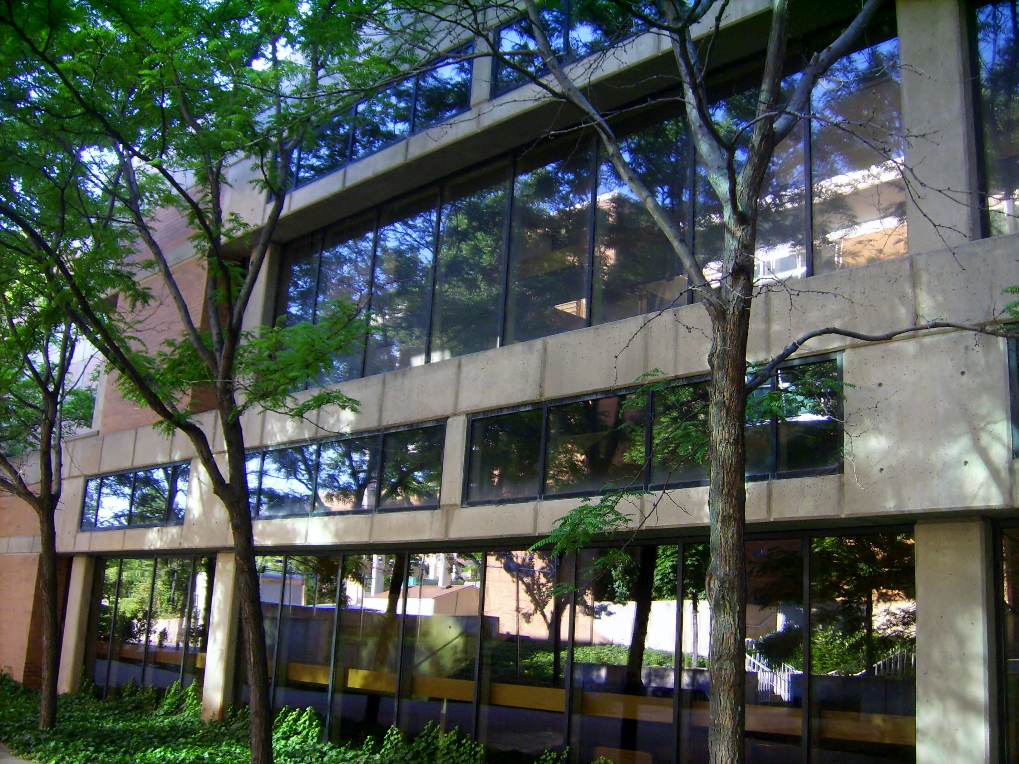 Weber State University campus